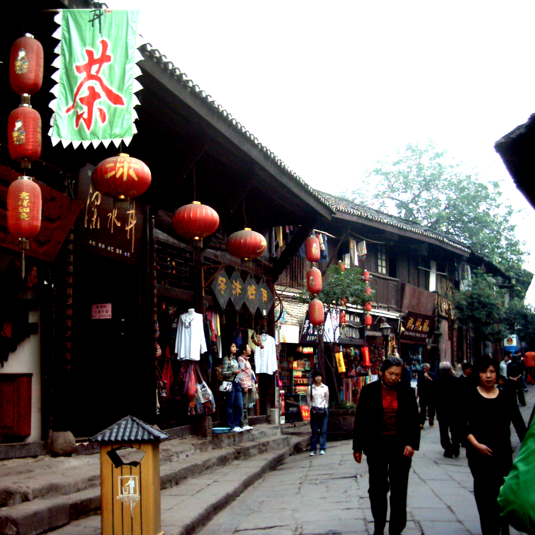 A tea house in Ciqikou, Chongqing 重庆磁器口茶馆